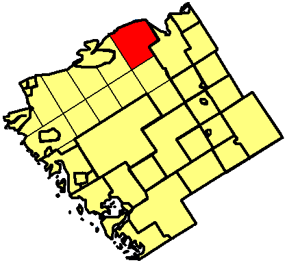 Locator map for Patterson Township, Ontario